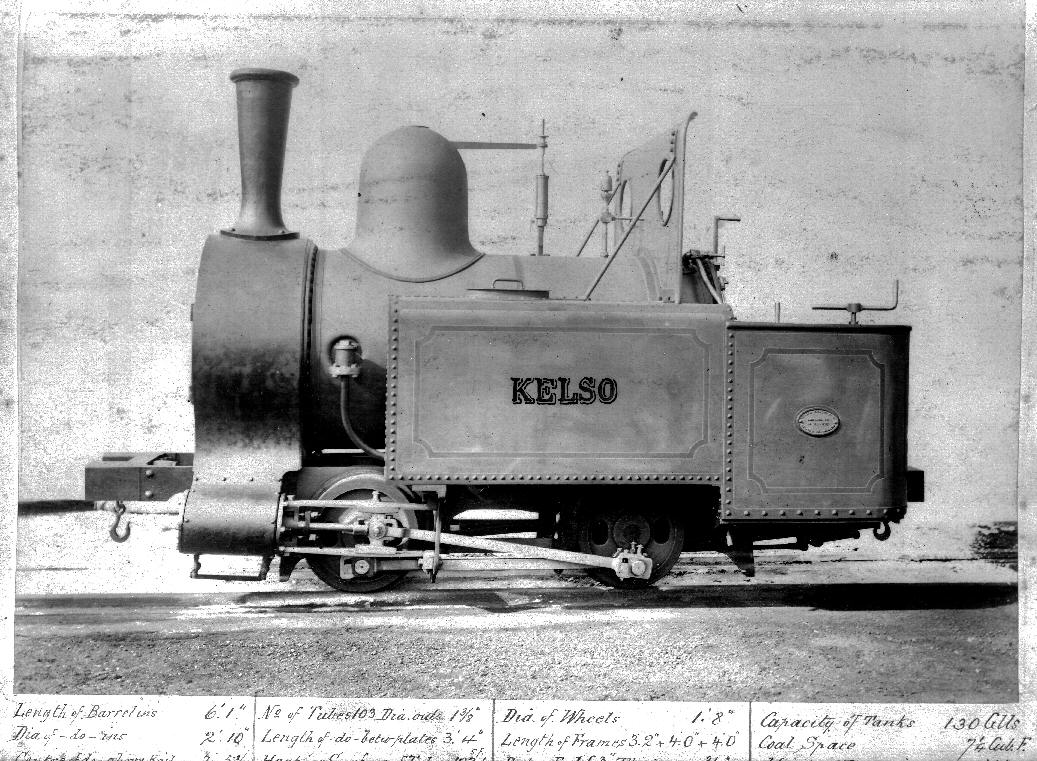 2ft gauge steam locomotive "Kelso" built at the Vulcan Foundry in 1878